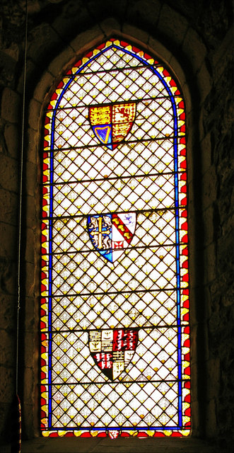 Stained Glass Windows, Church of St Mary the Virgin, Holy Island, (Lindisfarne), Northumberland, England. Shields: top: royal arms of Queen Victoria; centre: arms of Edward Maltby (1770-1859), Bishop of Durham 1836-56 (arms of See of Durham impaling Maltby (Argent, on a bend gules between a lion rampant (azure) and a cross pattée of the second three garbs or) Burke's General Armory, 1884; bottom ...... quartering Strangways